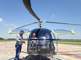 scout team